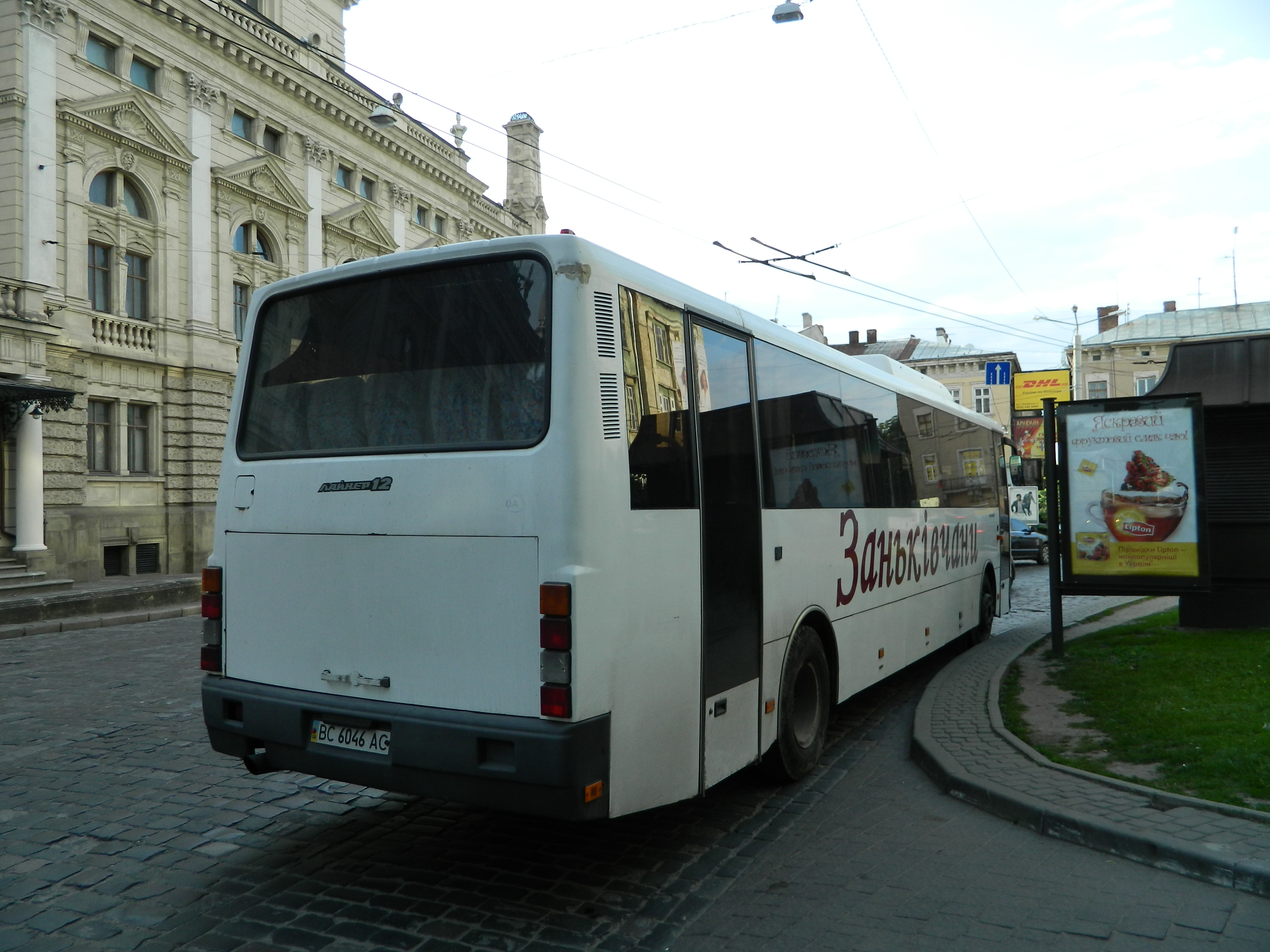 LAZ-52078 bus (reg. BC 6046 AC) belongs to Zankovetska Theater in Lviv, Ukraine.